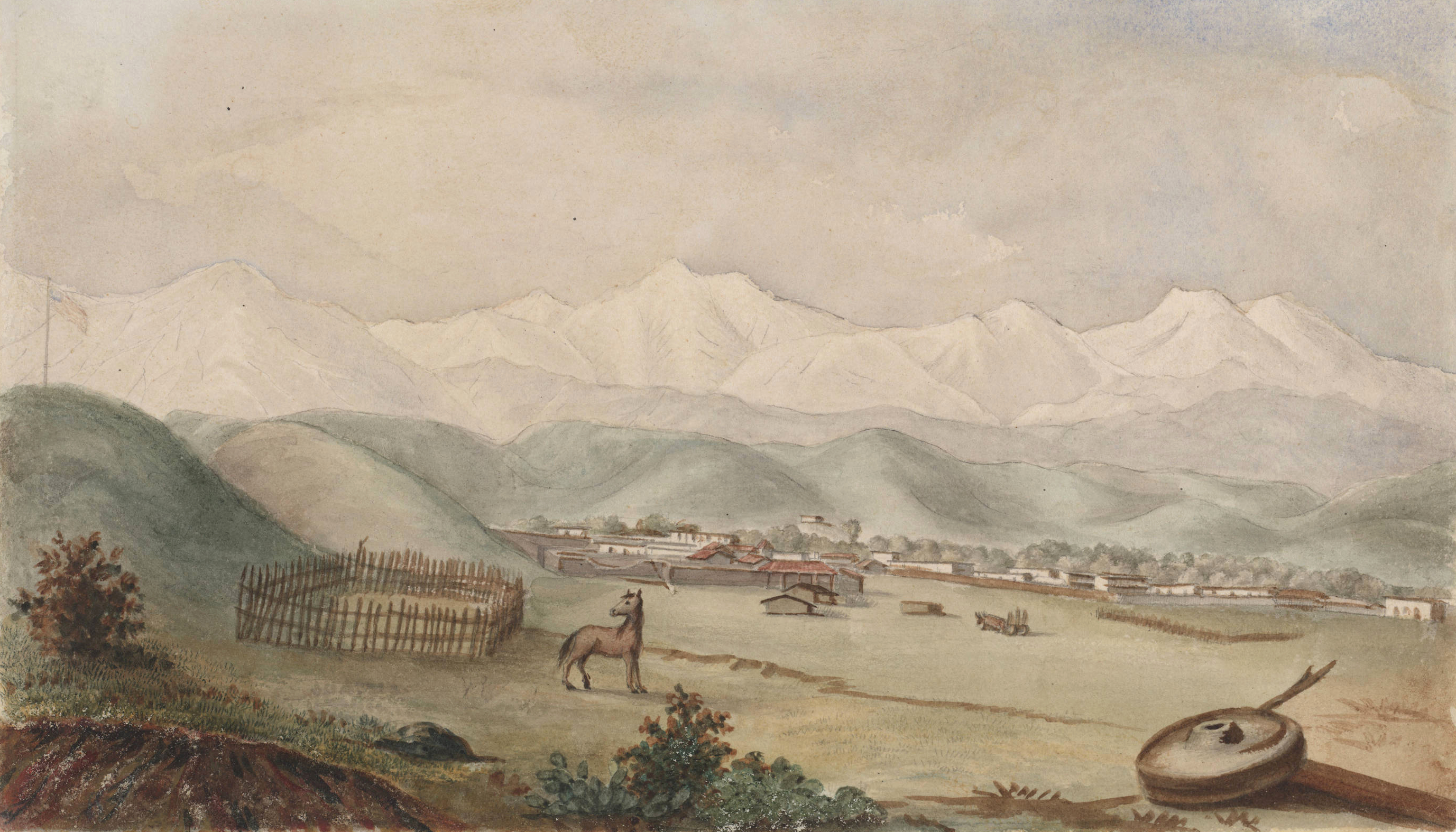 Los Angeles, April 1848. Physical Description: 13.3 x 23 cm. ; Water color on paper Notes: Water color drawing of Los Angeles as viewed from the South with some vegetation in the foreground, followed by a horse and a corral, and a grouping of structures in the middle ground with hills surrounding the scene and mountains behind. American flag atop a hill on far left.